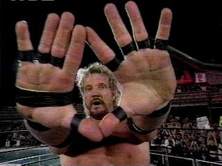 Diamond Dallas Page's infamous "Diamond Cutter" hand gesture.